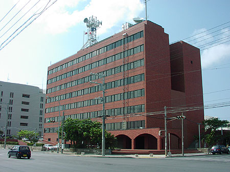 JCG(Japan Coast Guard) 11th Regional Coast Guard Headquarters